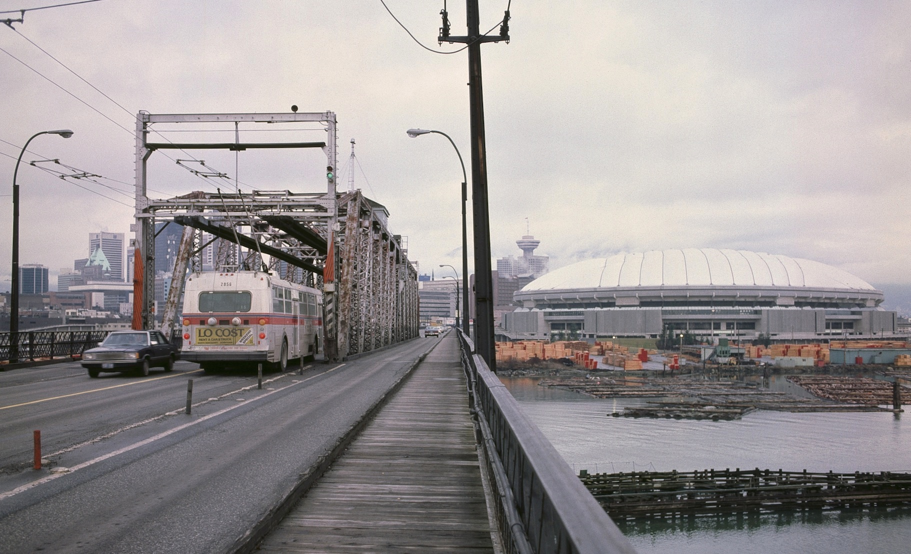 Vancouver's second Cambie Street Bridge, opened in 1911 and closed in 1984, was a swing bridge. This photo looking north on the bridge shows the then-new BC Place Stadium, about six months after it opened. The bridge closed in November 1984, to be replaced by a new bridge at approximately the same location. This 1911 bridge was formally named the Connaught Bridge (starting in 1912), but was commonly referred to as the Cambie Street Bridge.